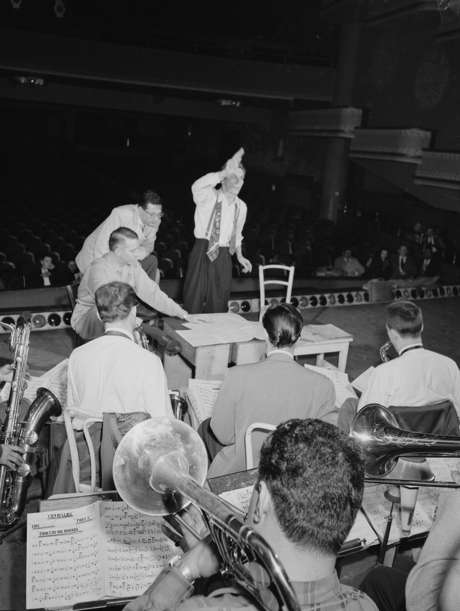 Bob Graettinger, Pete Rugolo, and Stan Kenton, 1947 or 1948 (Photograph by William P. Gottlieb)